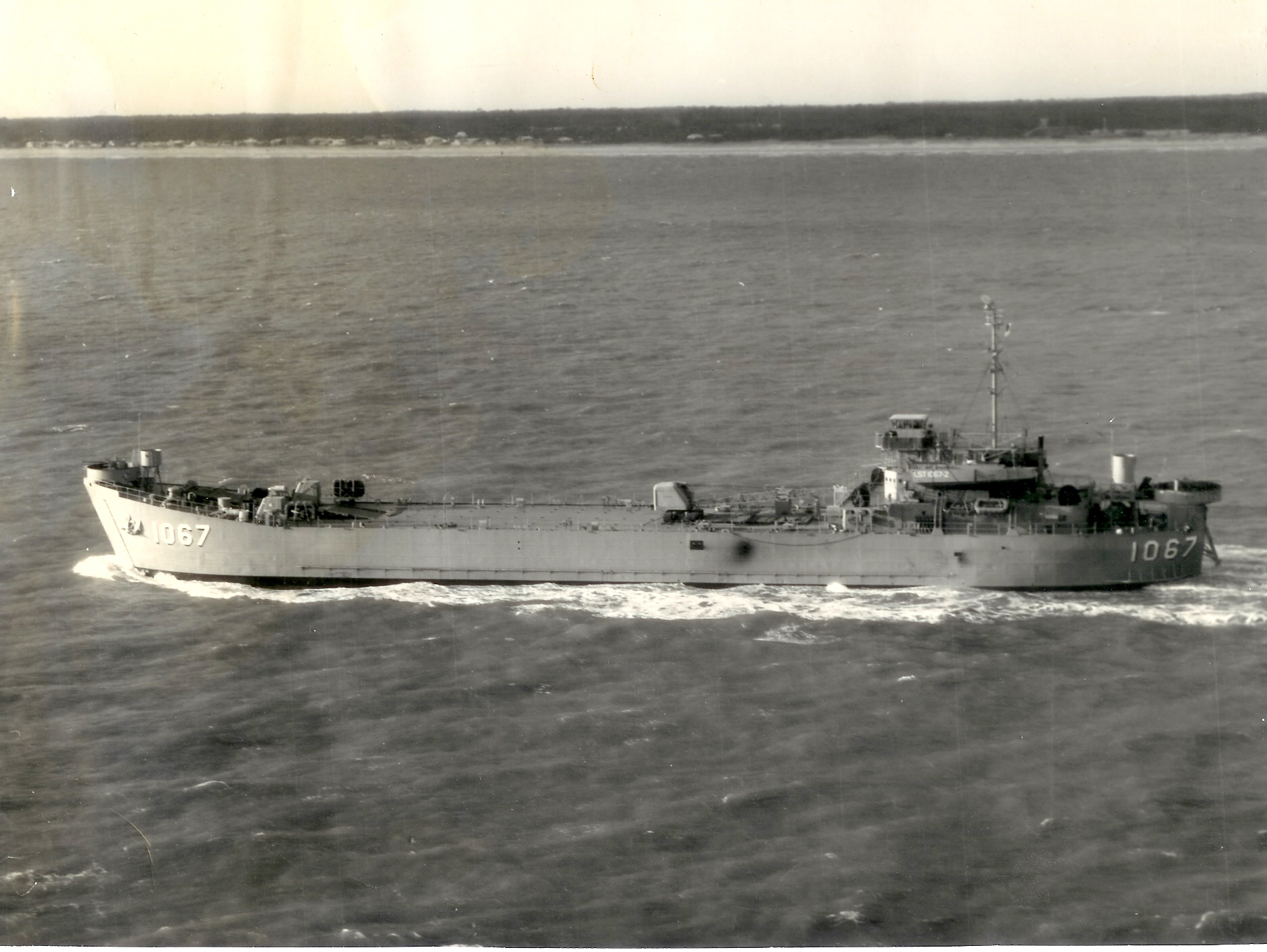 Photograh provided bt ship captain LT. Royse during deployment in 1966